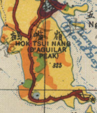 粵語: 取自一九三六年鶴嘴嶺。一九三六年英國軍部出版，Hong Kong and the New Territories 。